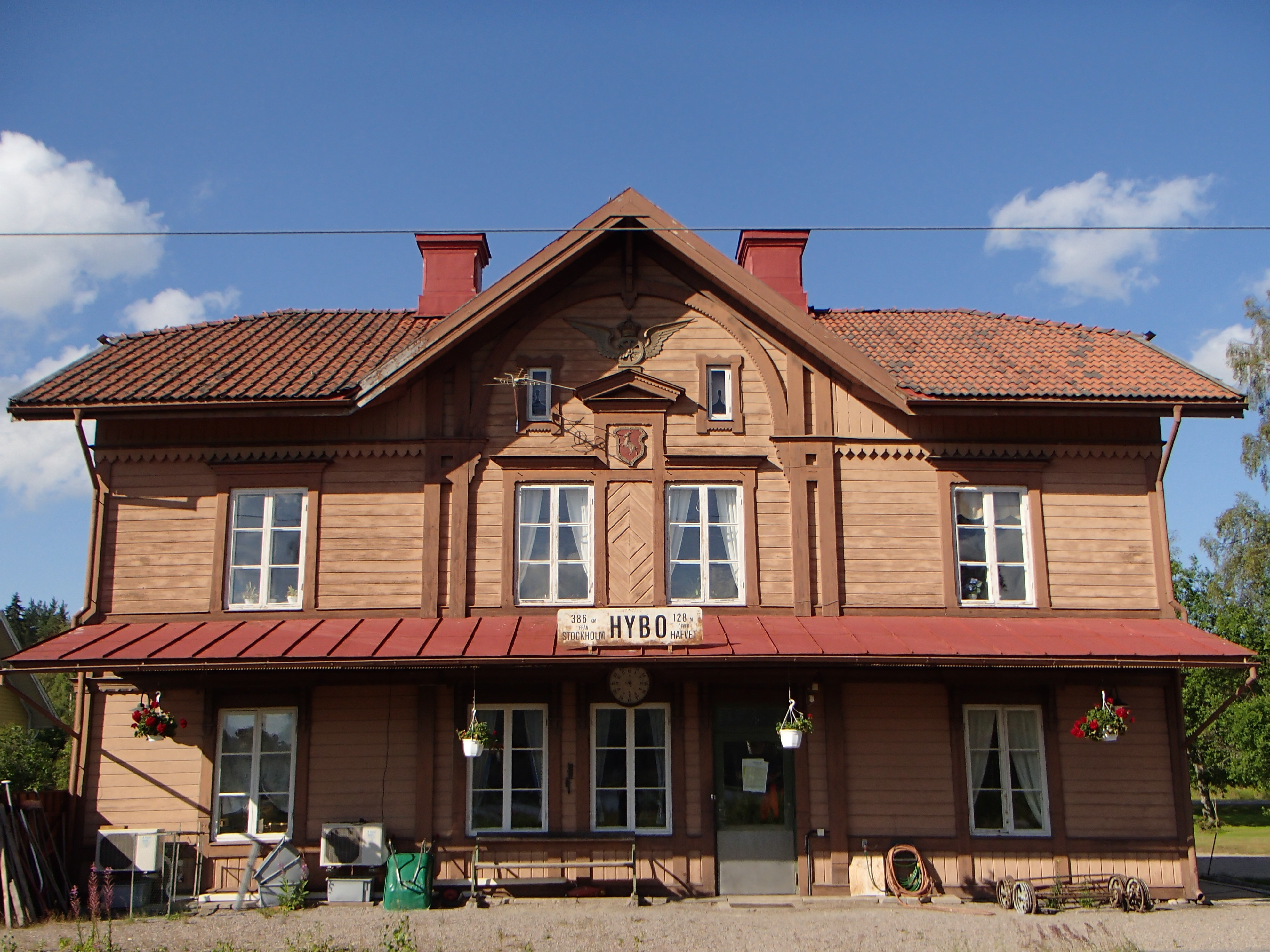 The former train station building of "Hybo stationshus" at Hybo byväg 10 in Hybo, Ljusdal Municipality